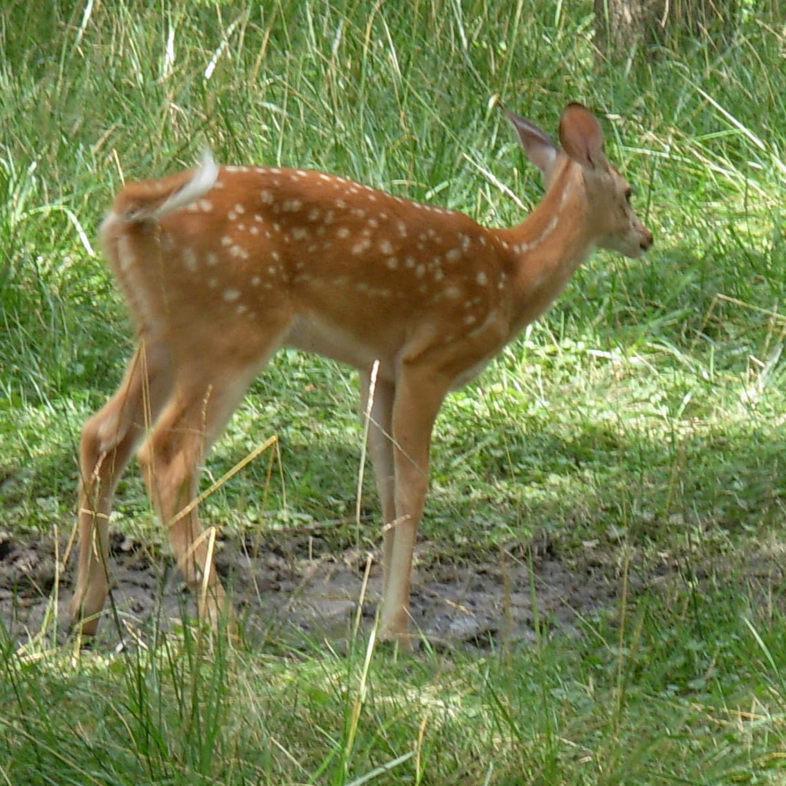 A young white-tailed deer (Odocoileus virginianus) kept in a public park enclosure in Winona, Minnesota